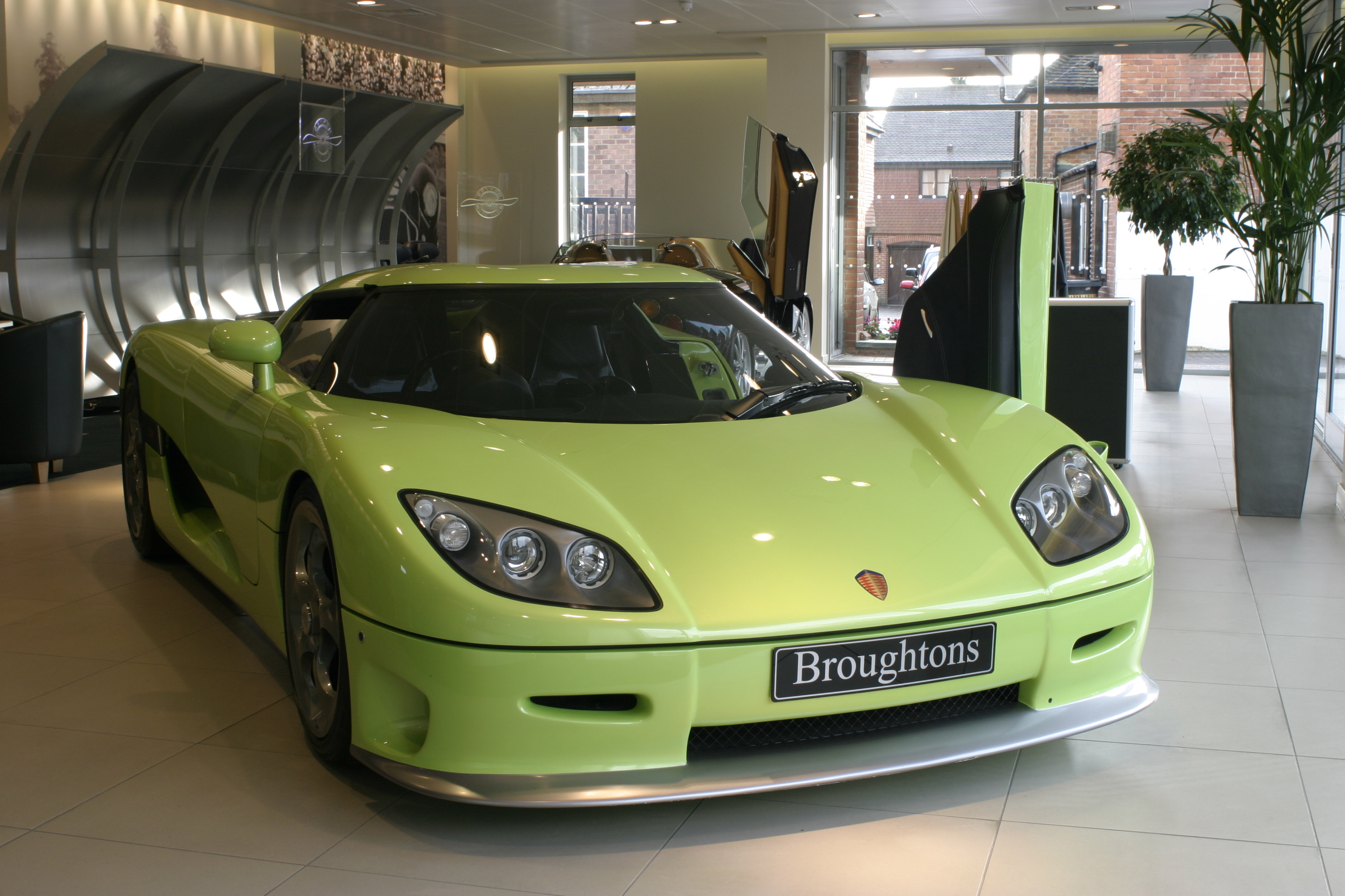 Koenigsegg at Broughtons, Pangbourne, Berkshire. Photographer: User:Thecodmaster